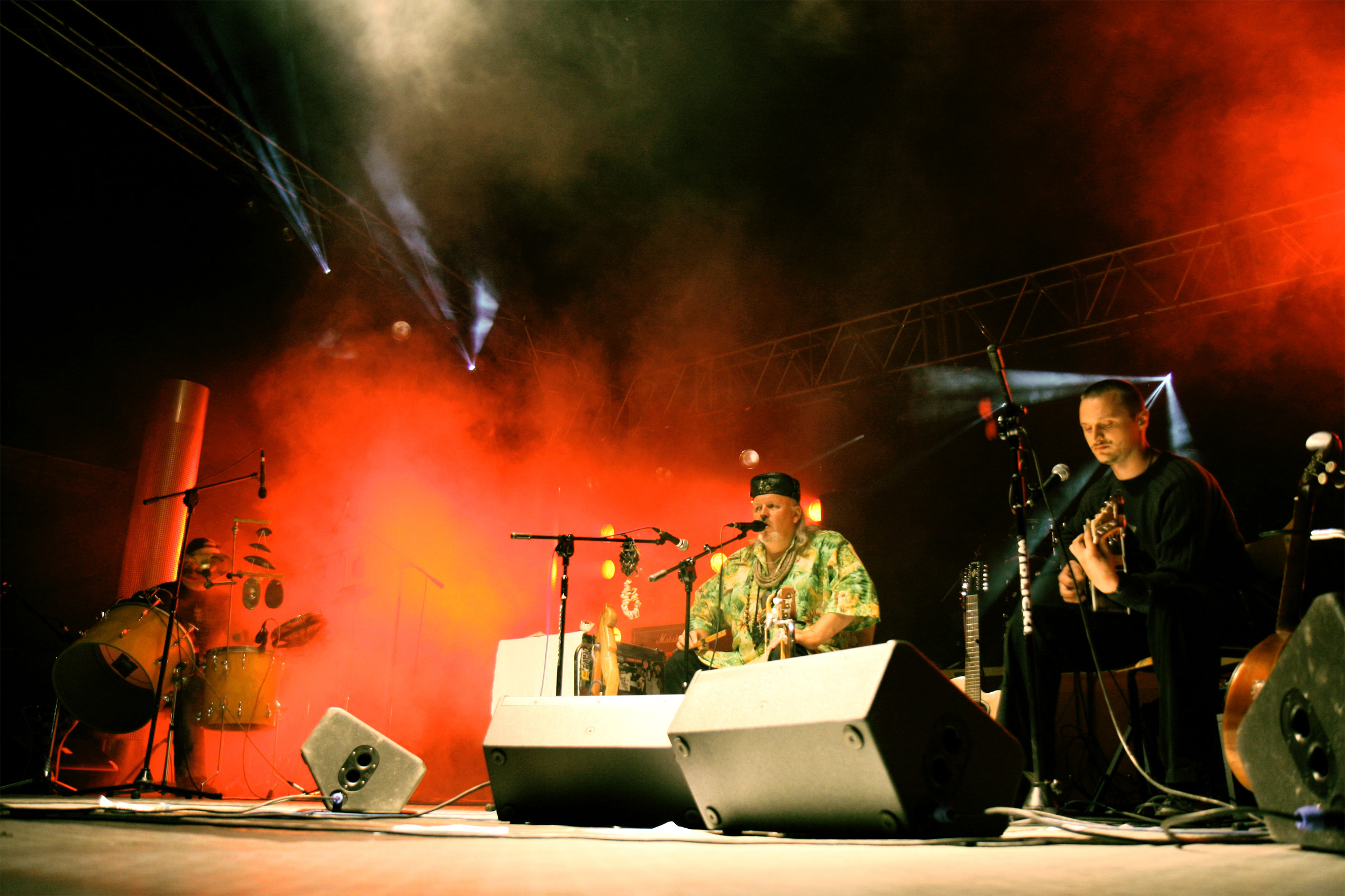 Troica band at Basovišča-2008 festival in Gródek, Poland. 18.07.2008